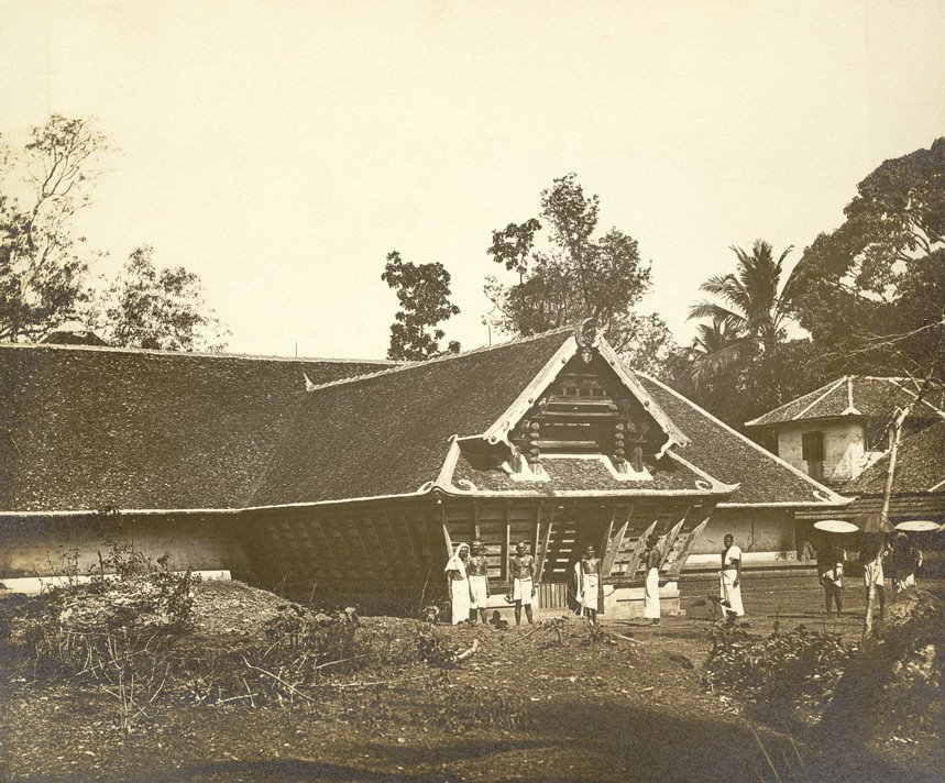 Bhagavathi Temple in Elathur, Kozhikode (1900-01)